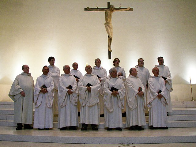 gregorian choir Ronse